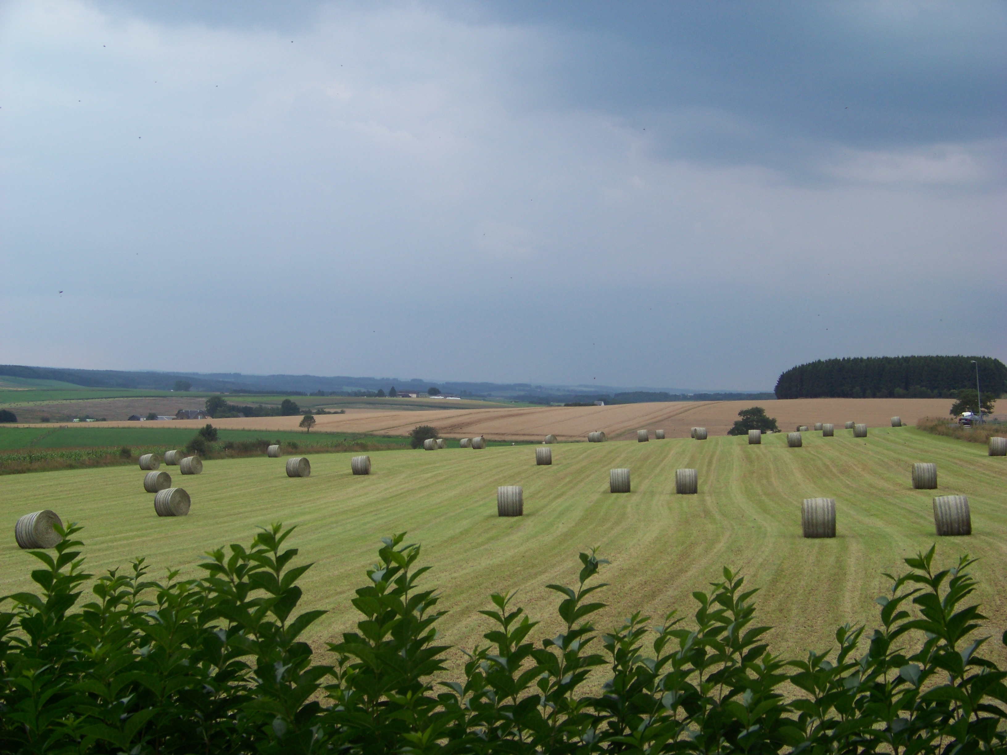 Round hay bales somewhere in Luxembourg